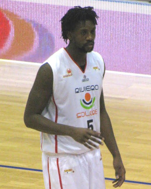 Ndudi Ebi con la maglia di Rimini